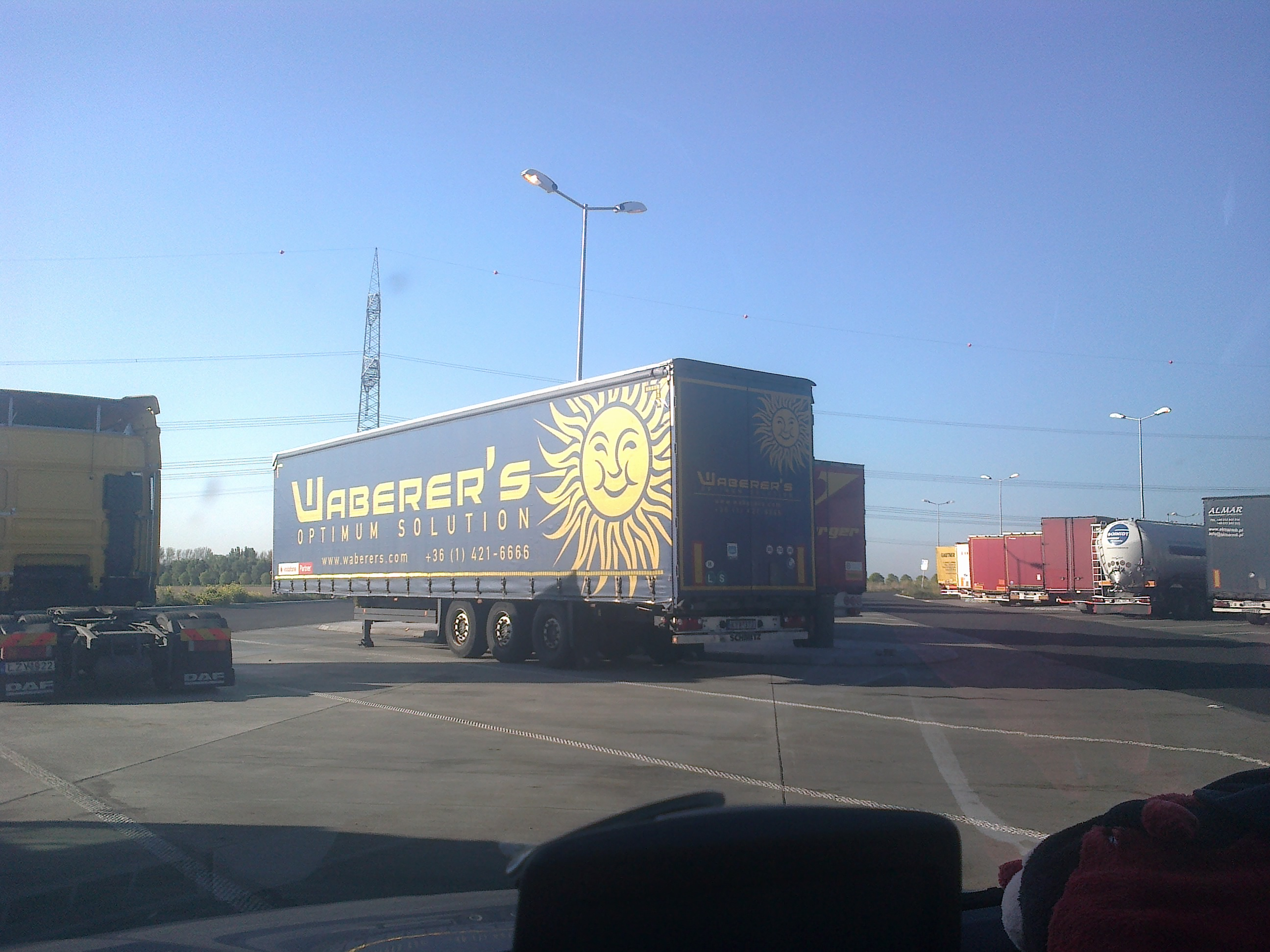 trailer of Waberers logistic